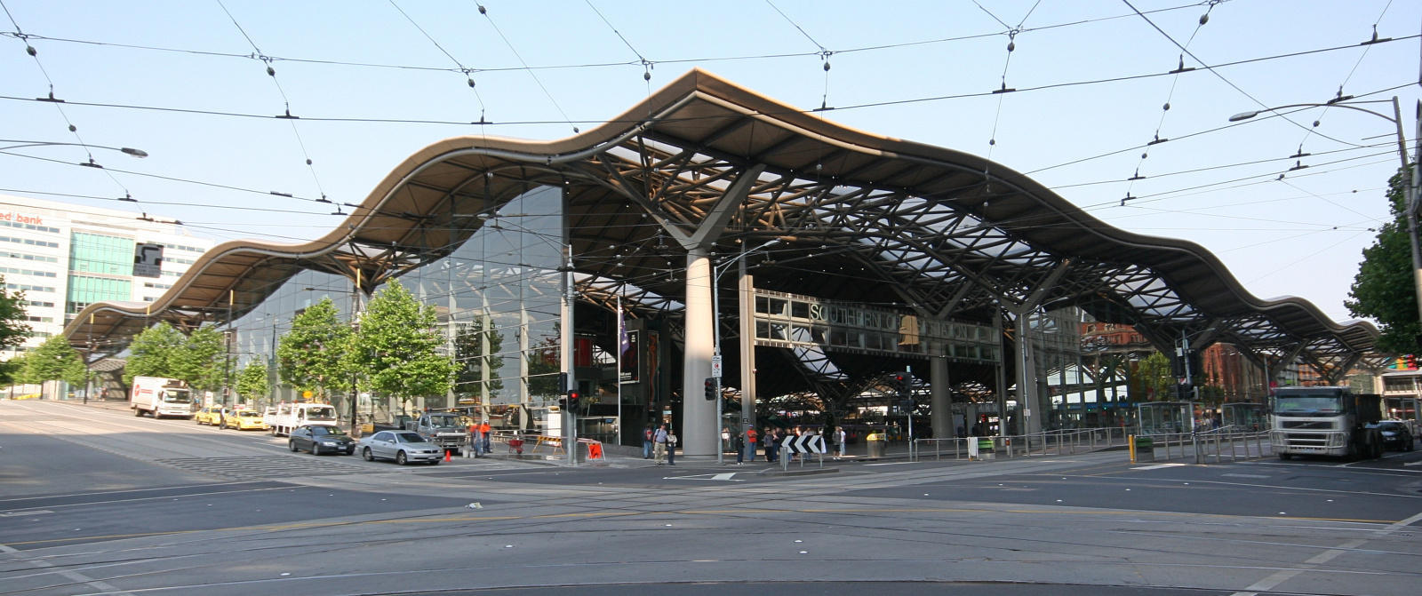 Morning view of Southern Cross Station, Melbourne. From corner of Collins and Spencer Streets.